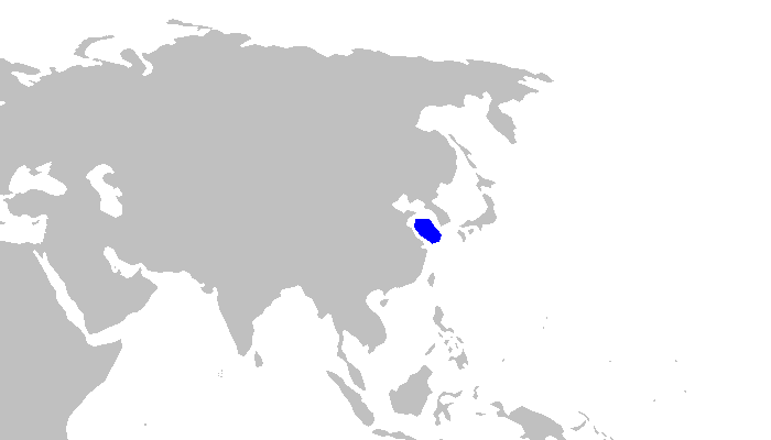 Distribution map for Apristurus internatus